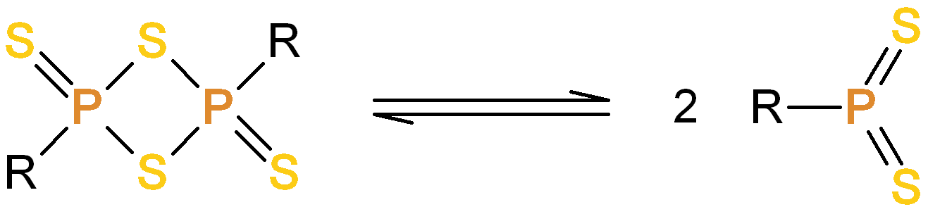 The general strucutre of a dithiadiphosphetane disulfide